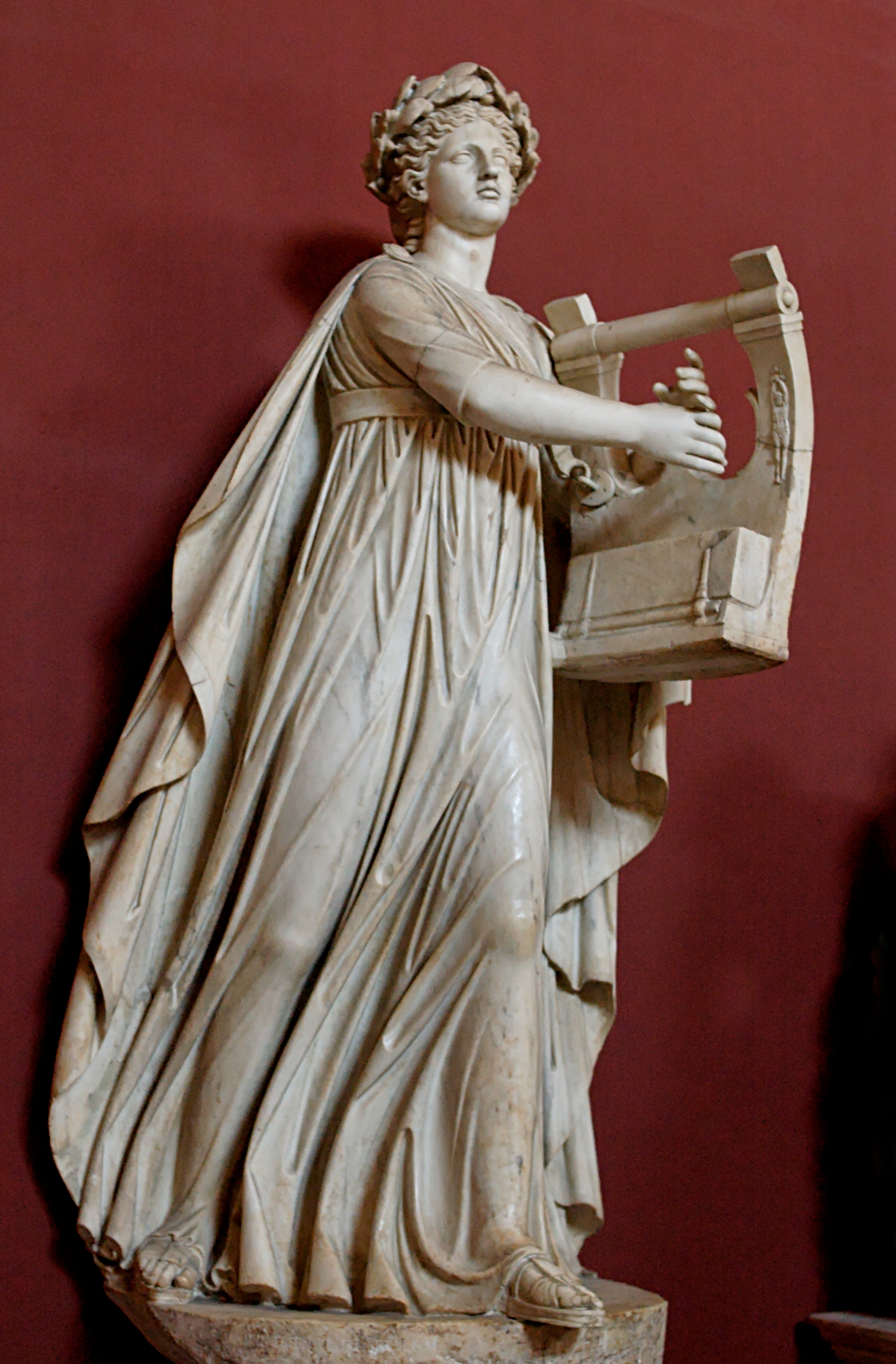 Apollo kitharoidos (holding a kithara) and musagetes (leading the Musas). Marble, Roman artwork, 2nd century CE.